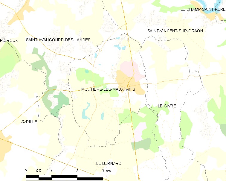 Map of French municipality Moutiers-les-Mauxfaits